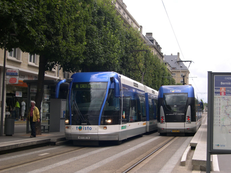 Guided trolleybuses in Caen (Calvados, France) – Bernières tram stop (lines A and B).